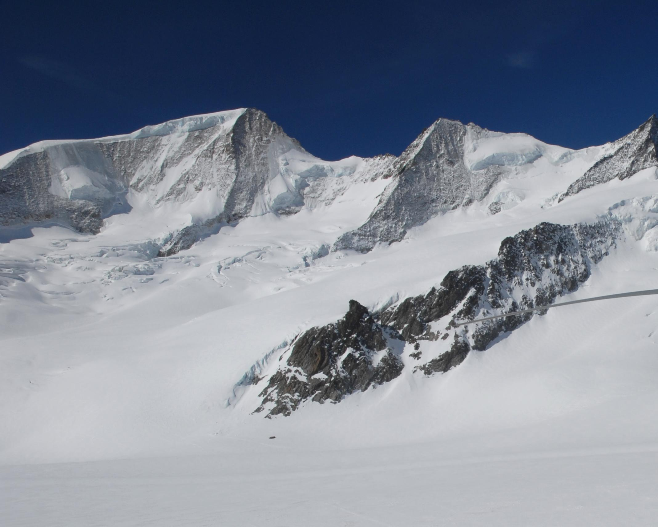 Gross Wannenhorn (left), Schönbühlhorn (middle) and Fiescher Gabelhorn (far right) seen from Fiescher glacier